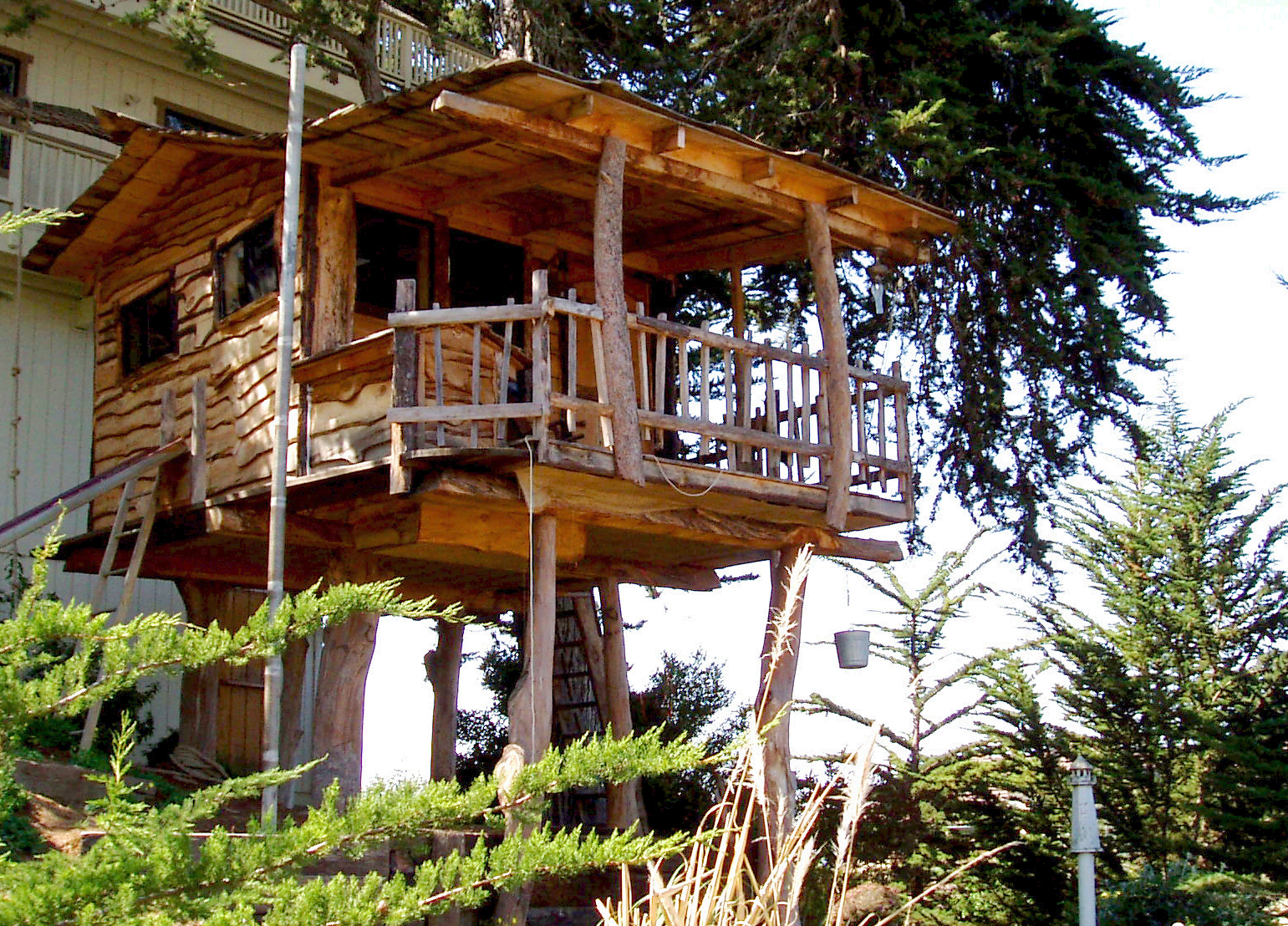 Baumhaus Treehouse tree house